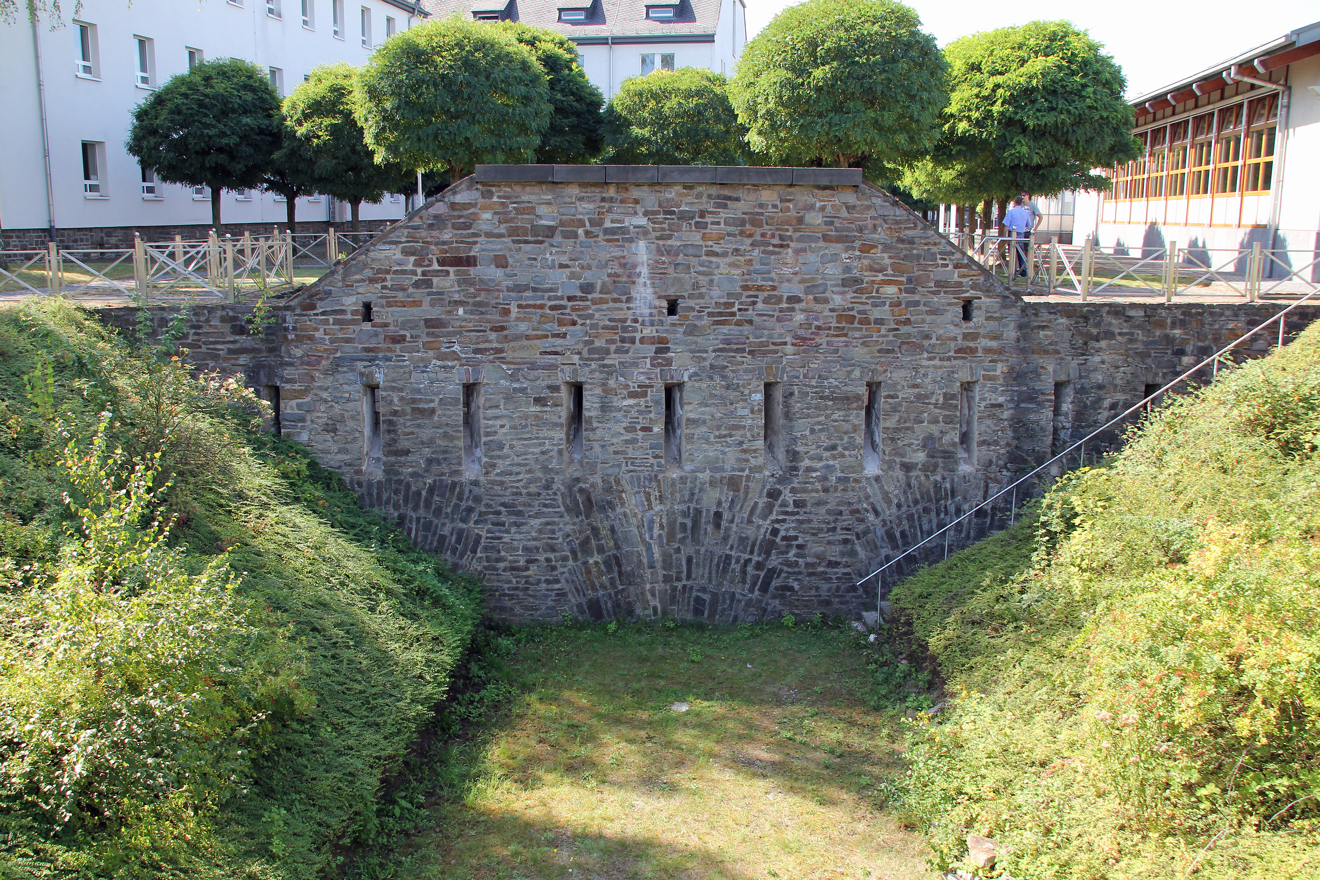 Neuendorfer Flesche in Koblenz